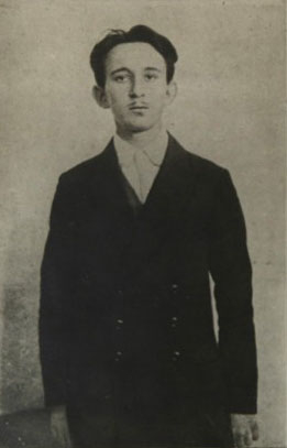 Photograph of Vaso Čubrilović taken in 1914 during the Sarajevo trial (October 1914) by an unknown photographer. The dimensions are 9,5 x 15 cm. It is currently held at the Sarajevo History Museum, with the id. no. "ZFR - 81". The photograph circulated in newspapers since the trial.